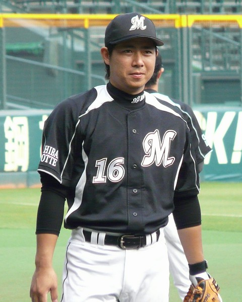 LM-Hisao-Heiuchi20100525